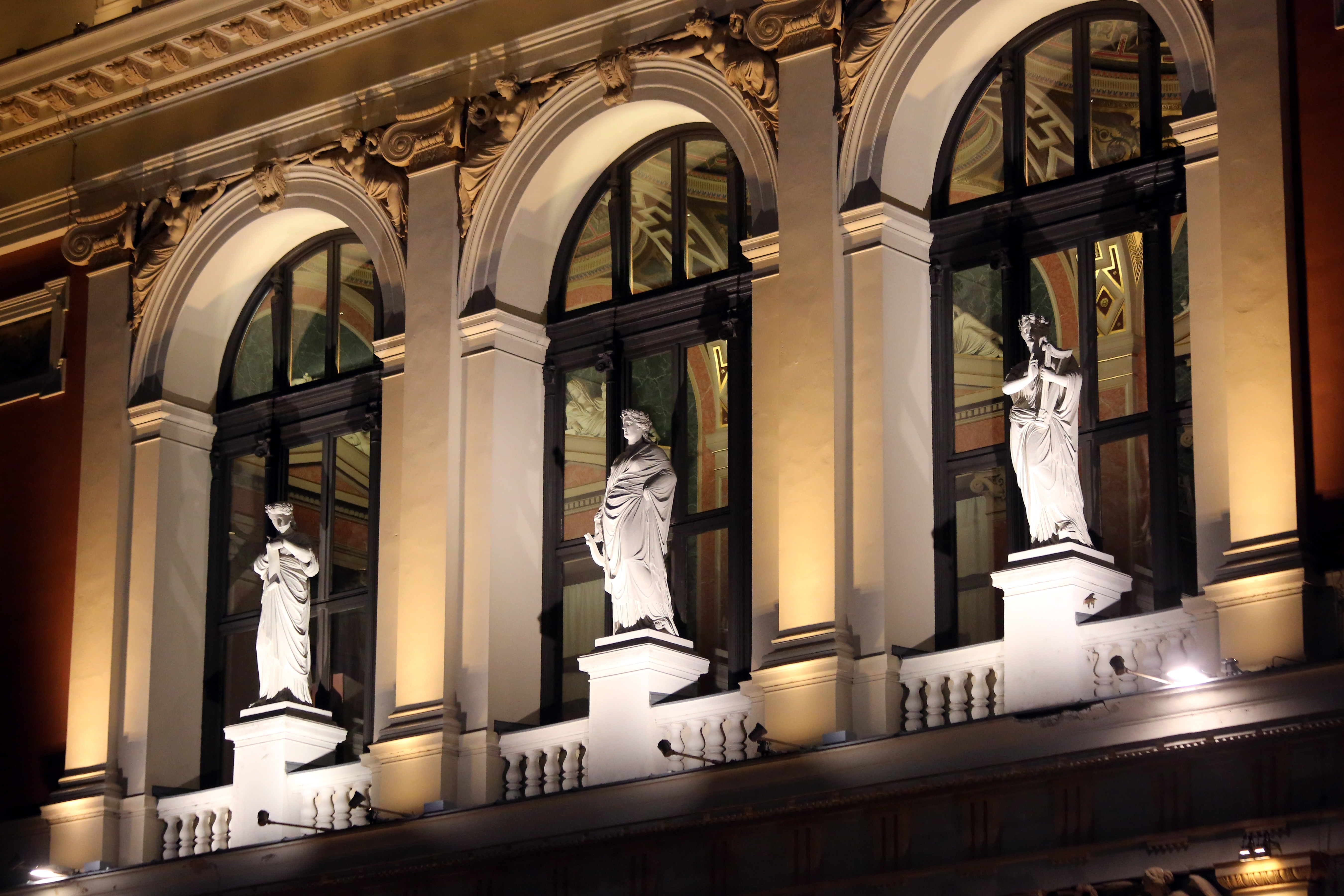 Musikverein house at Karlsplatz in Vienna, Austria.